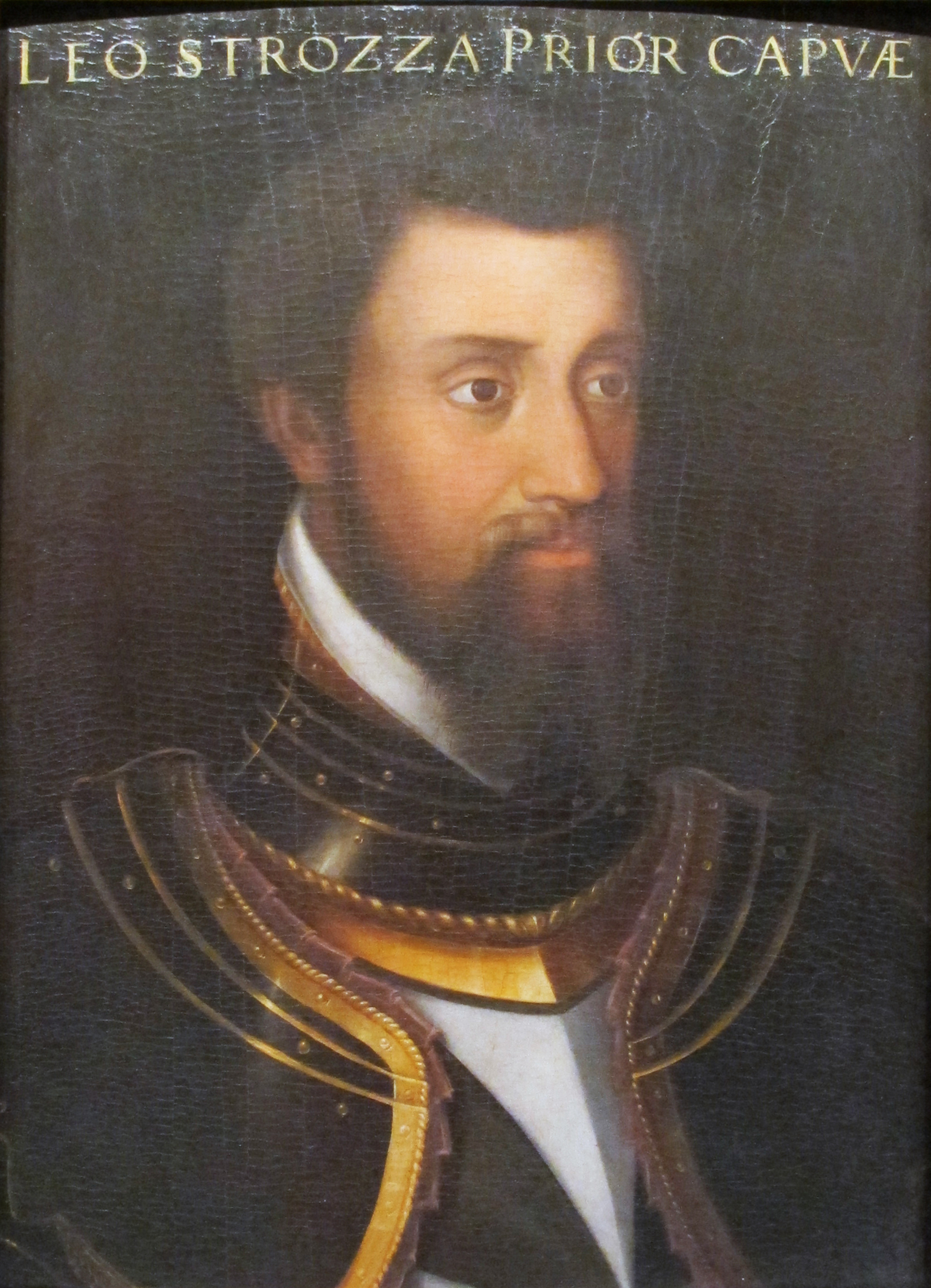 Leone Strozzi Cristofano dell'Altissimo (1525–1605) DescriptionItalian painterDate of birth/death 1525 21 September 1605 Location of birth/death Florence FlorenceWork location Florence Authority control : Q5186477 VIAF: 77455965 ISNI: 0000 0000 8060 5835 ULAN: 500008488 WGA: ALTISSIMO, Cristofano dell' GND: 131756966 creator QS:P170,Q5186477